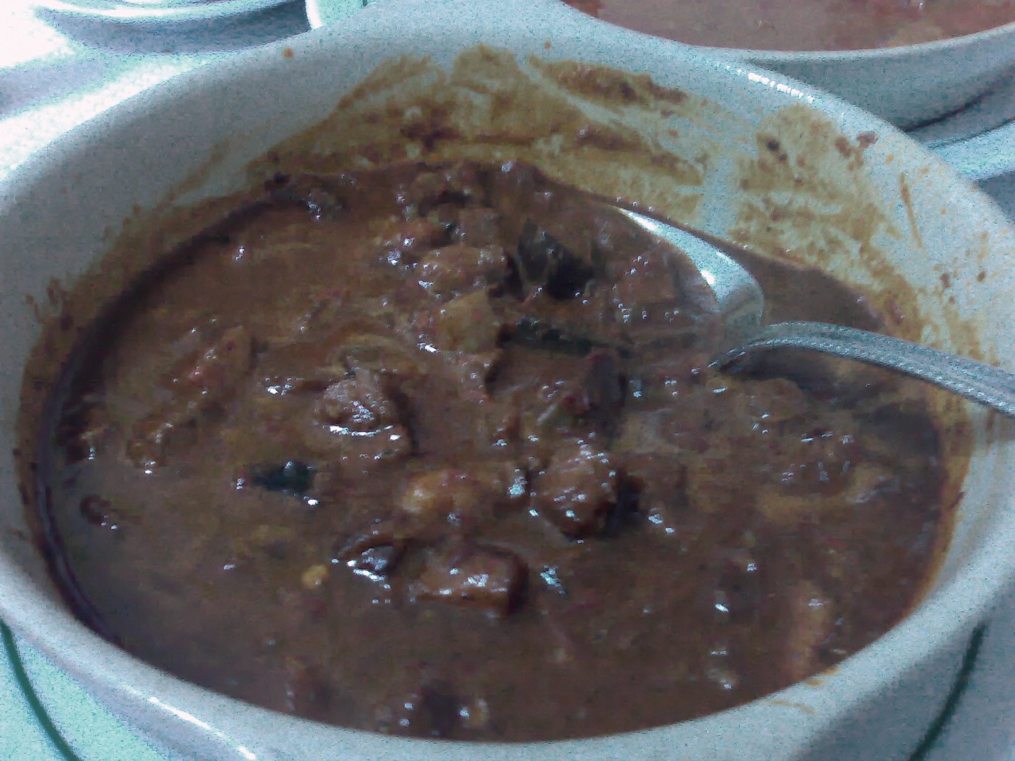 Sorpotel, a Goan dish, at Algés, Portugal.